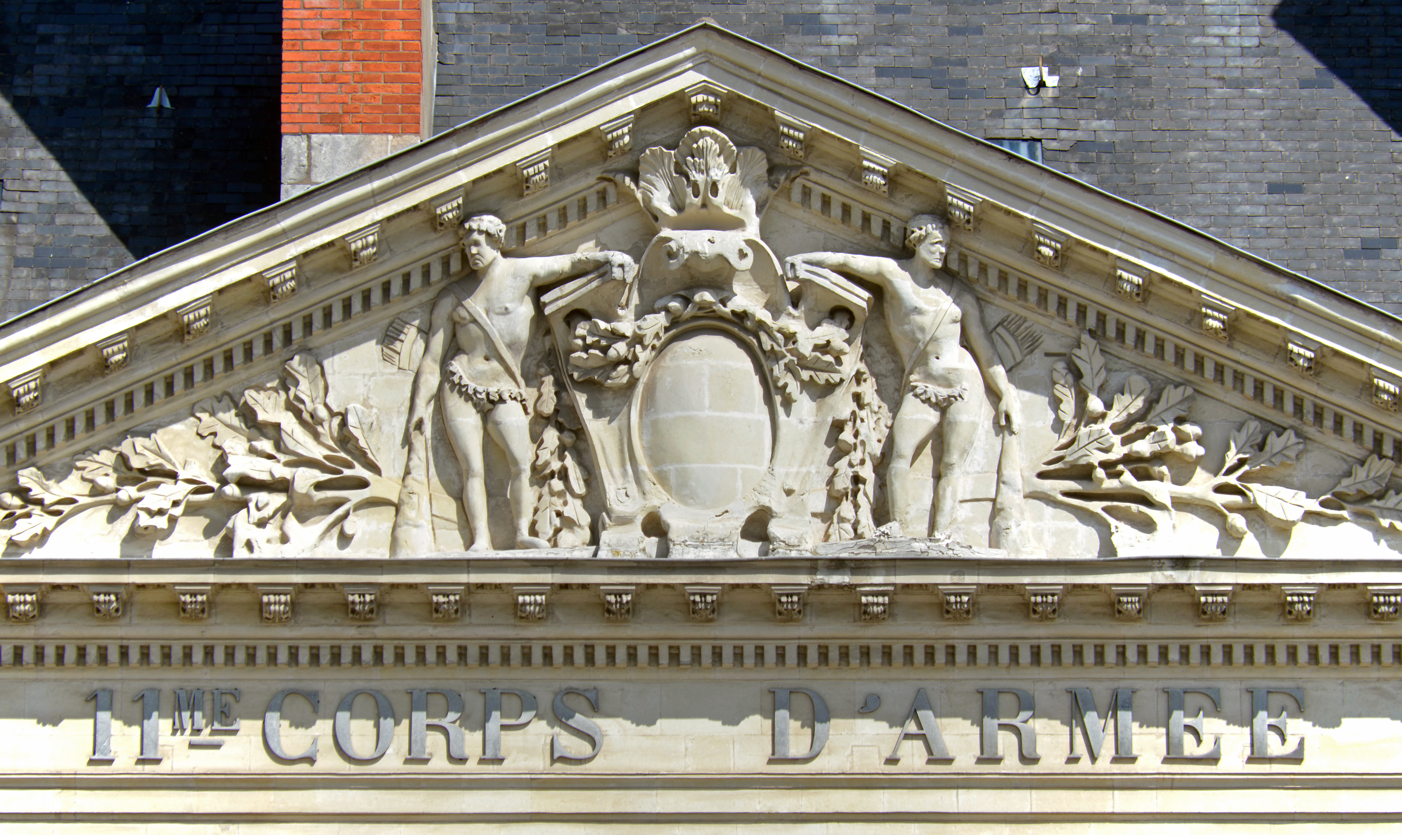 Hôtel d'Aux pediment in Maréchal-Foch town square - Nantes, France